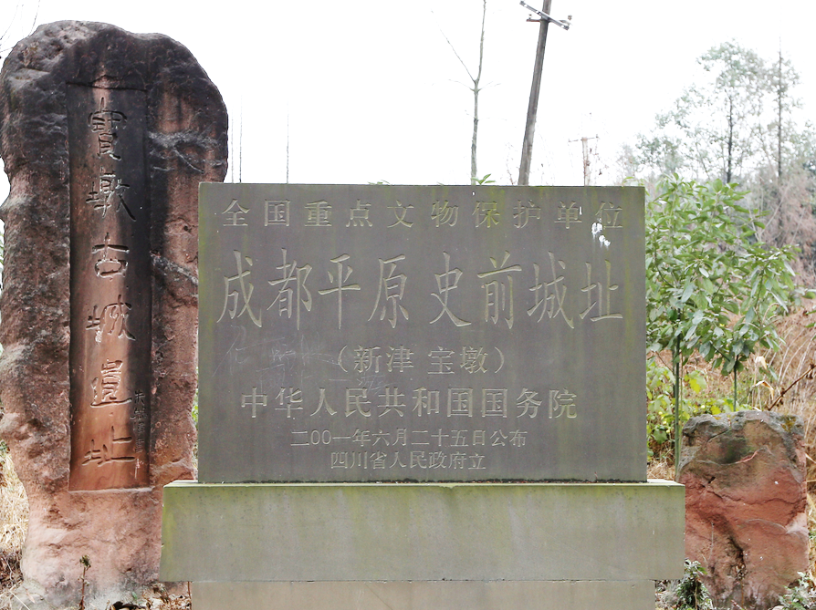 Baodun Site, located in Xinjing County, Chengdu City, Sichuan Province, PRC. One of the prehistorical city sites in Chengdu Plain, which belonging to the category of Chinese National Key Protected Cultural Heritages.中文（中国大陆）: 位于中国四川省成都市新津县的宝墩遗址，为成都平原史前城址之一，属于第五批全国重点文物保护单位。